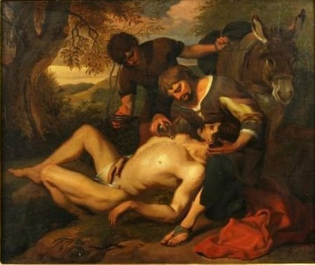 A depiction of the twin brothers Saints Cosmas and Damian.